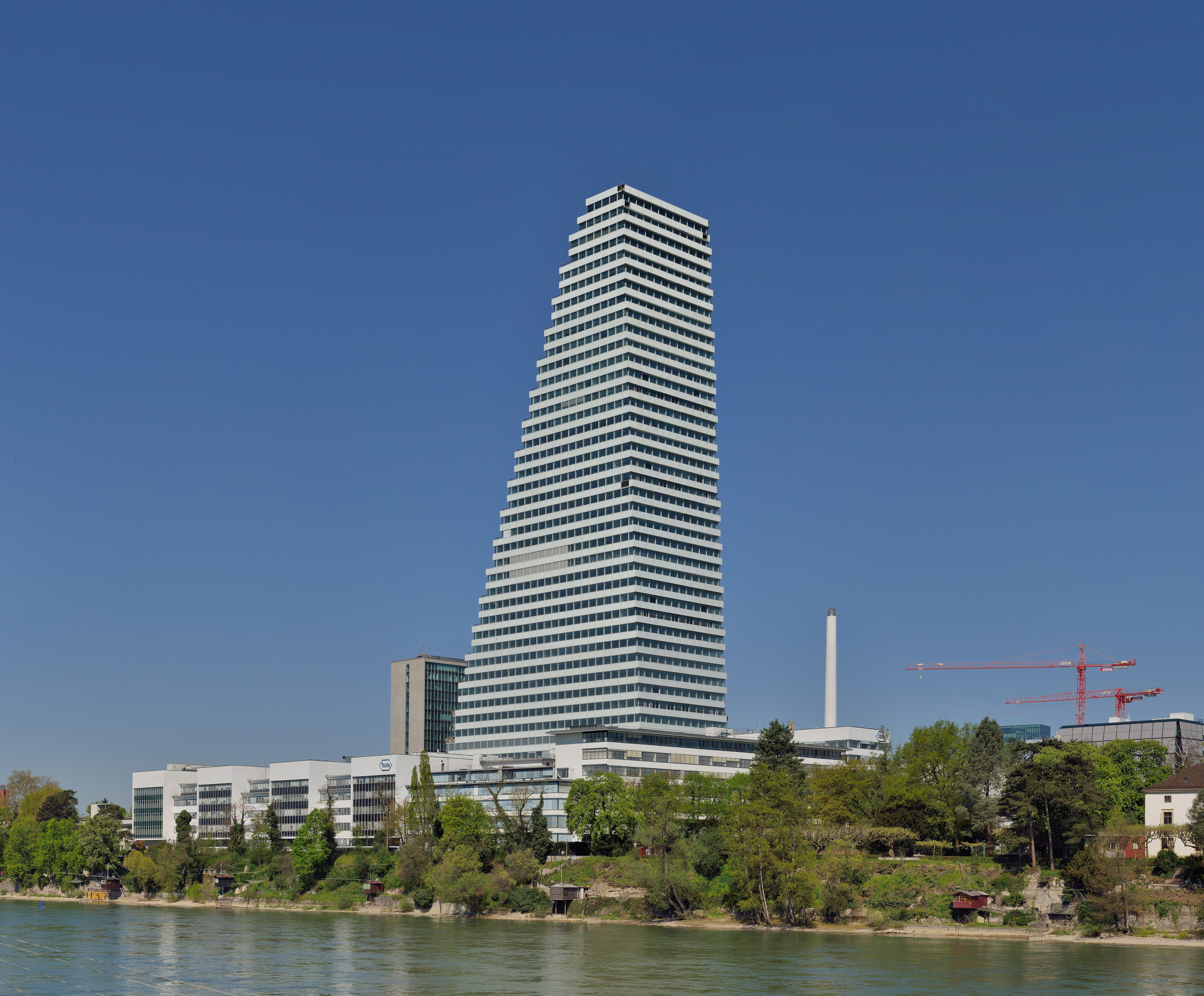 Basel: Roche Tower